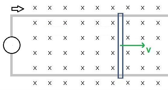 A primitive and easily undertood motor generator. A rail is set between two conducting tracts in a magnetic field.